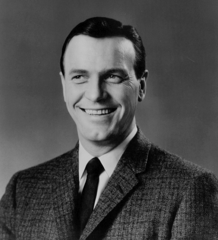 Photo of Eddy Arnold.